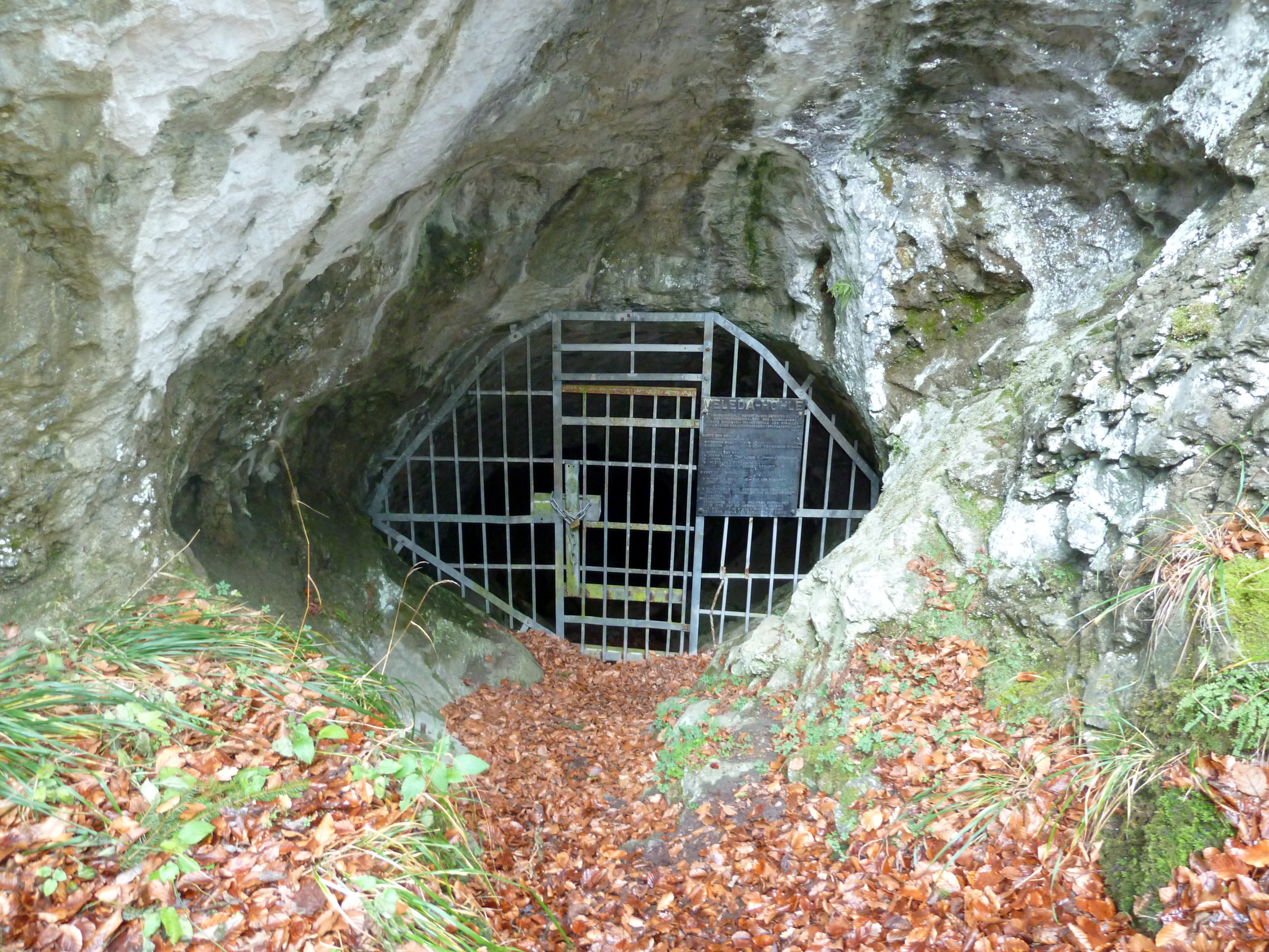 Western entrance to the cave veleda in Velmede.